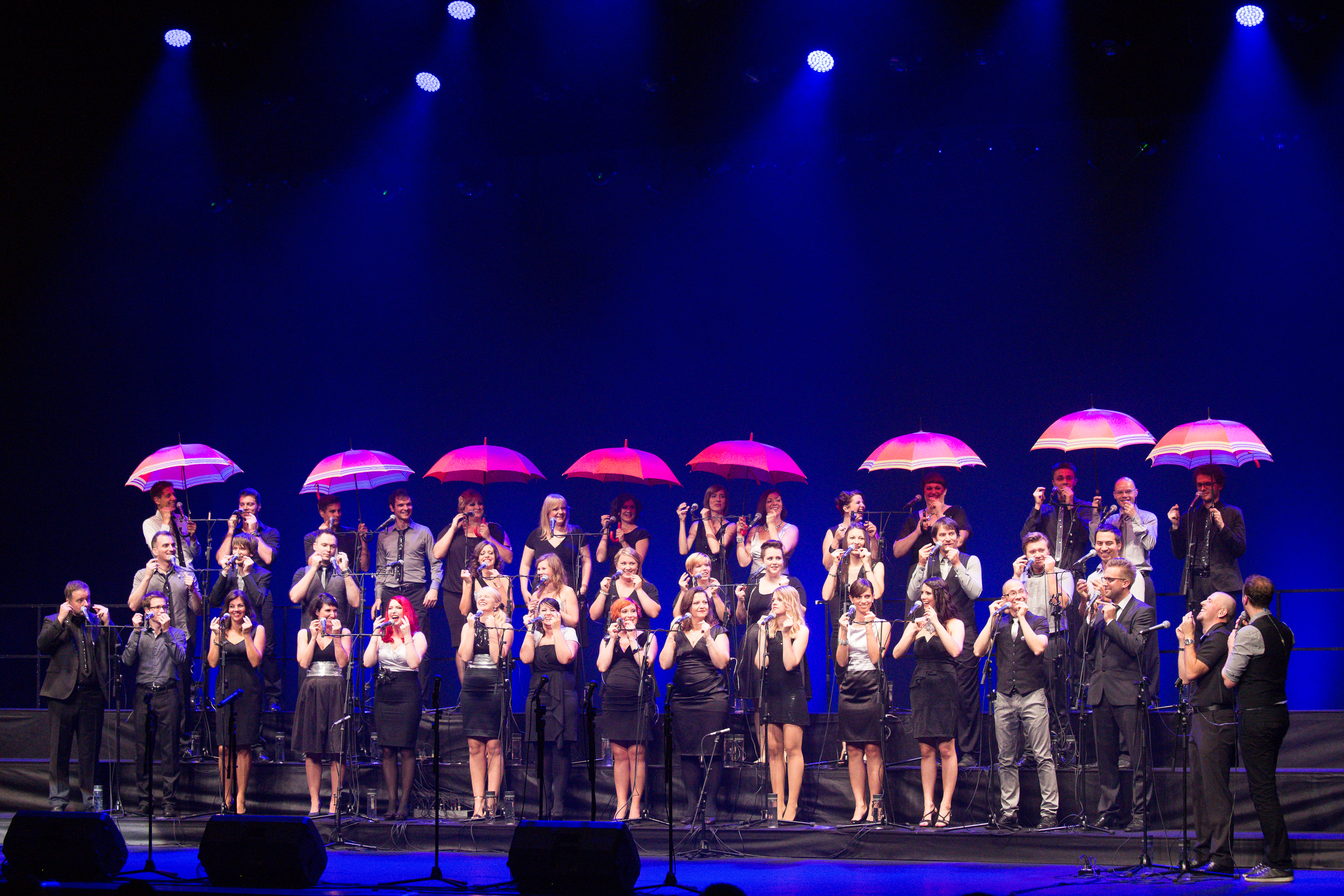 Rain before "Africa"